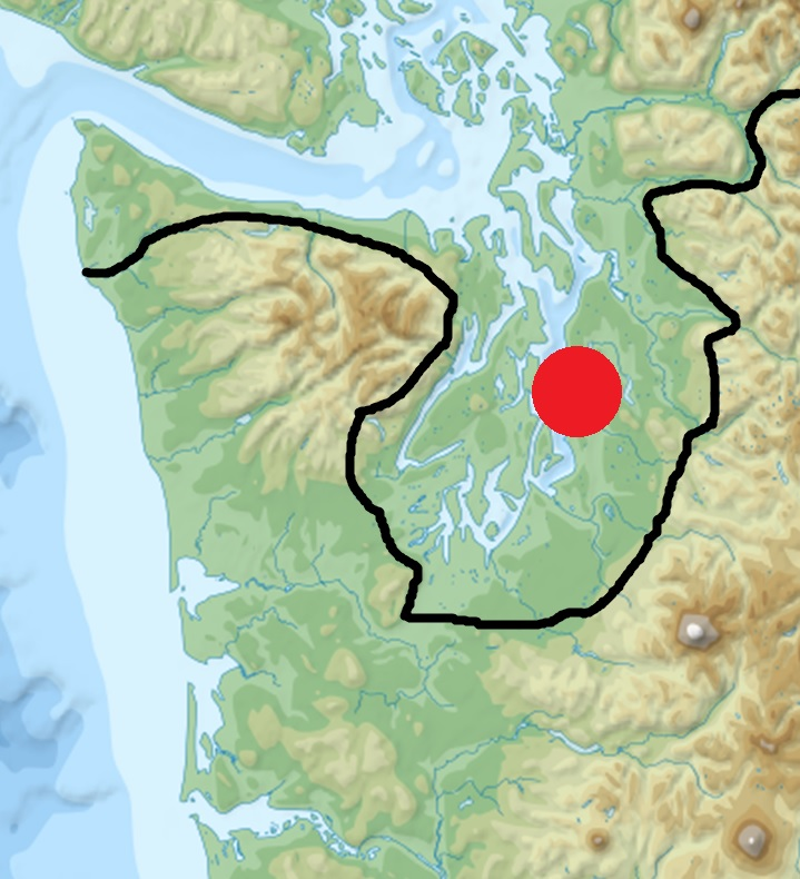 Border of the ice sheet in the last glaciation. The ice sheet was above the black line. The red spot is the location of Seattle.